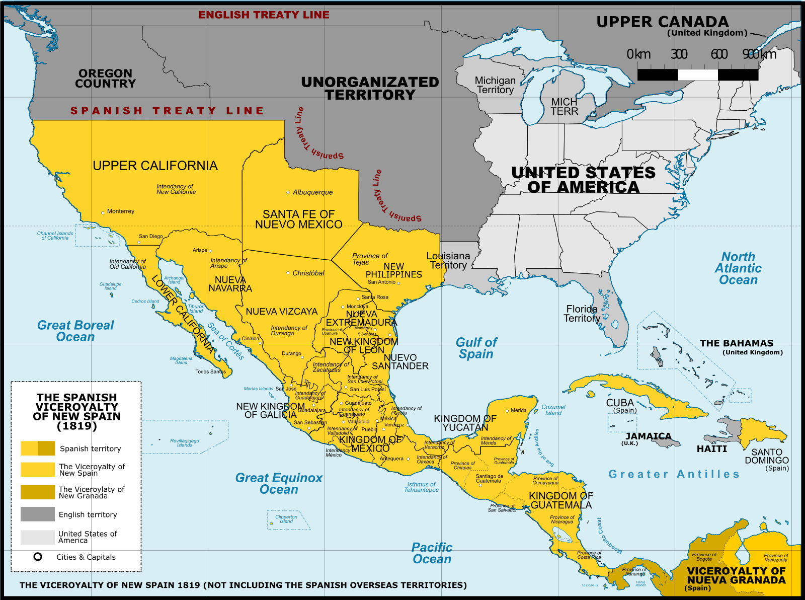 Viceroyalty of New Spain after the Adams-Onis Treaty of 1819 (Not including the Spanish overseas territories of the Pacific Ocean